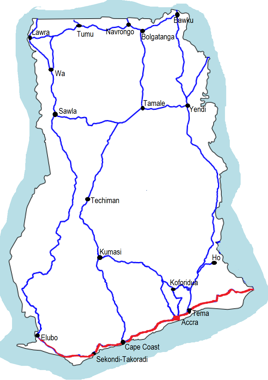 Map of N1 highway (Ghana)